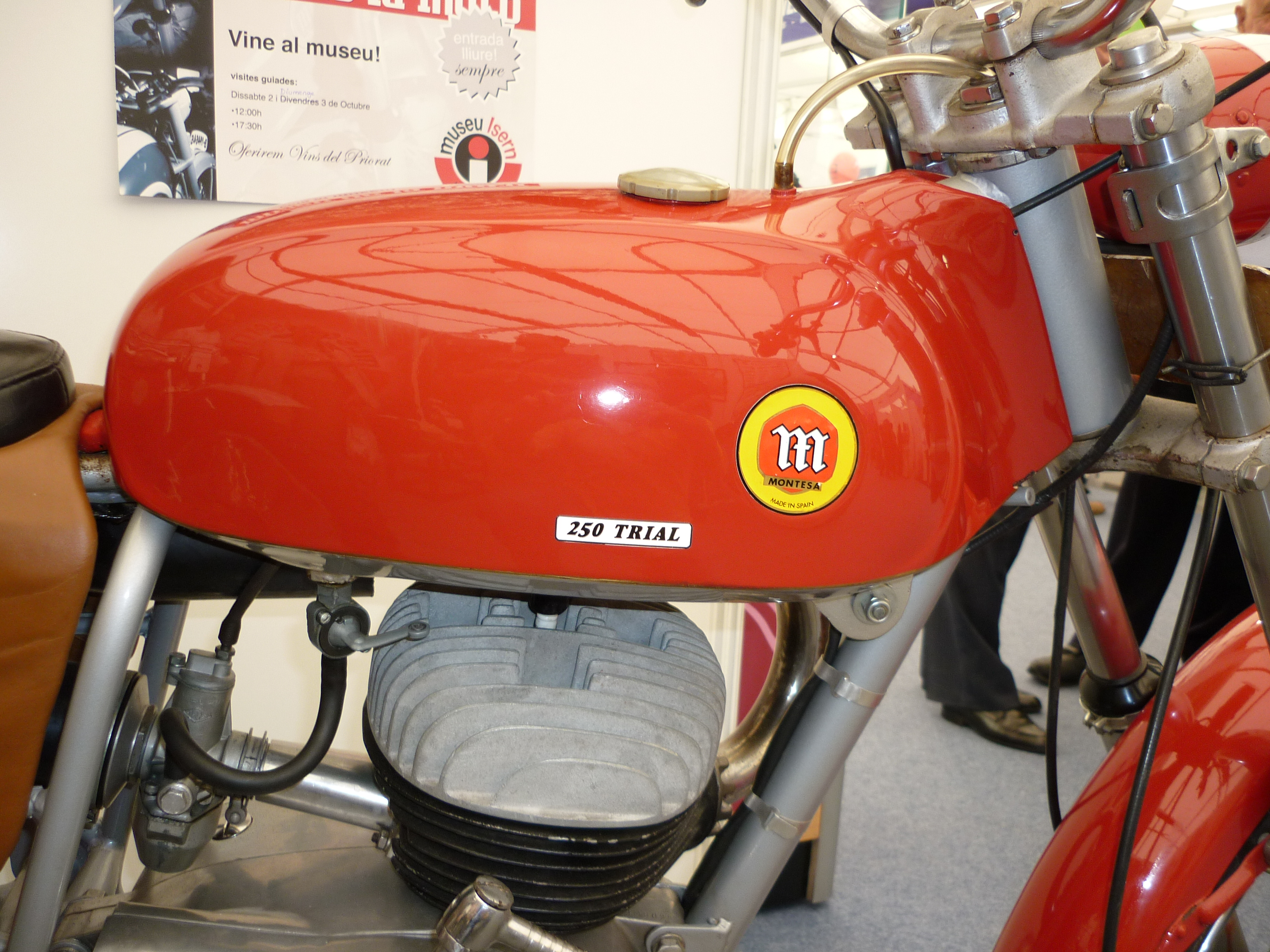 Montesa 250 Trial, the forerunner of the famous Cota 247. Pere Pi won the first Spanish Trials Championship in 1968, riding this bike.Exposed by Josep Isern at the FIMO (Mollet del Vallès, Catalonia, 1 to 3 October 2010)